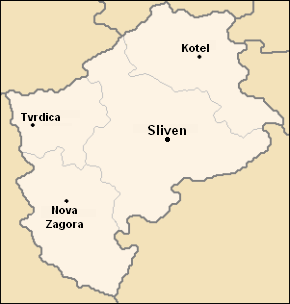 Croatian names on map of Sliven District (Bulgaria)